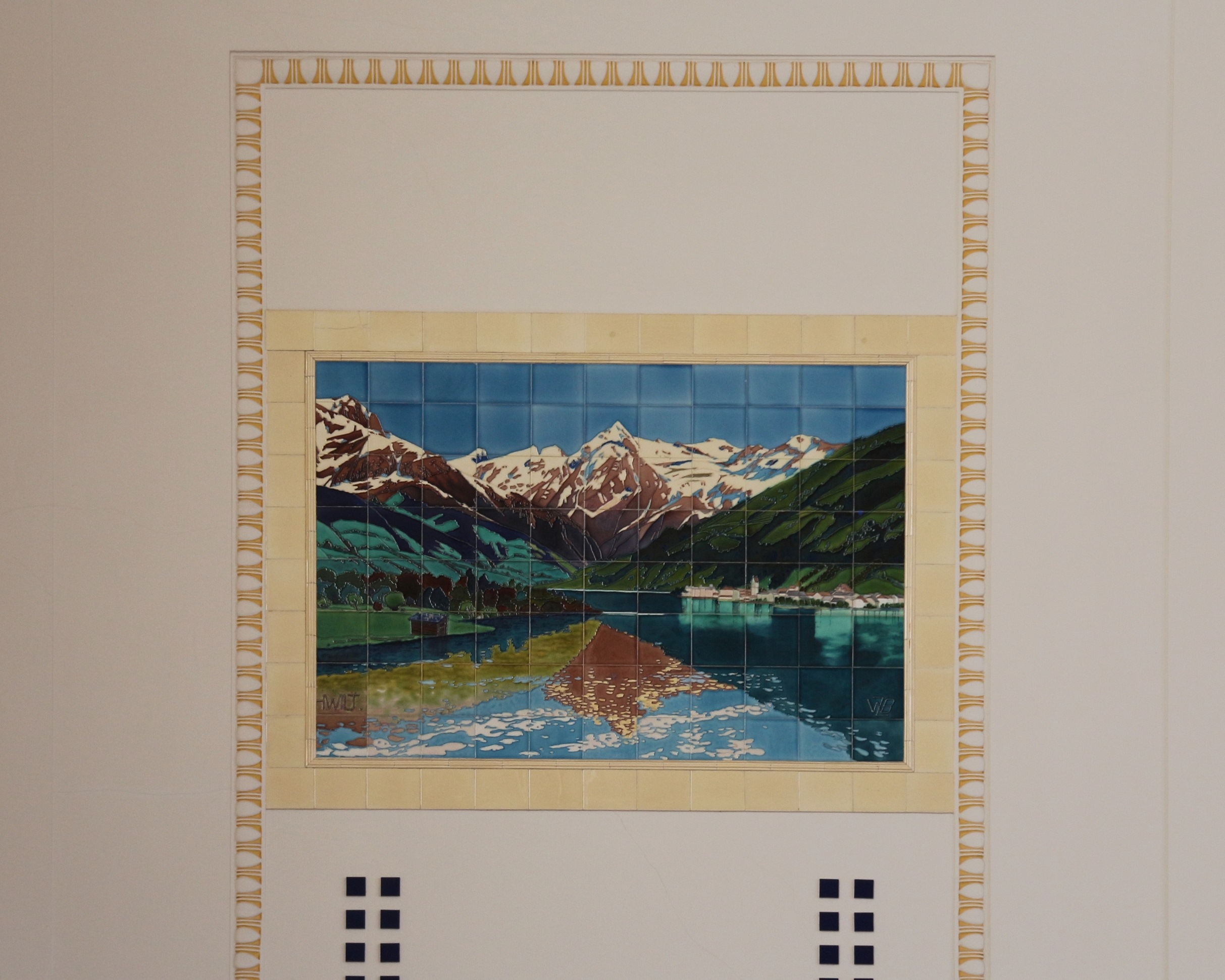 One out of ten mosaics in the former ticket hall of Salzburg main station, Austria.